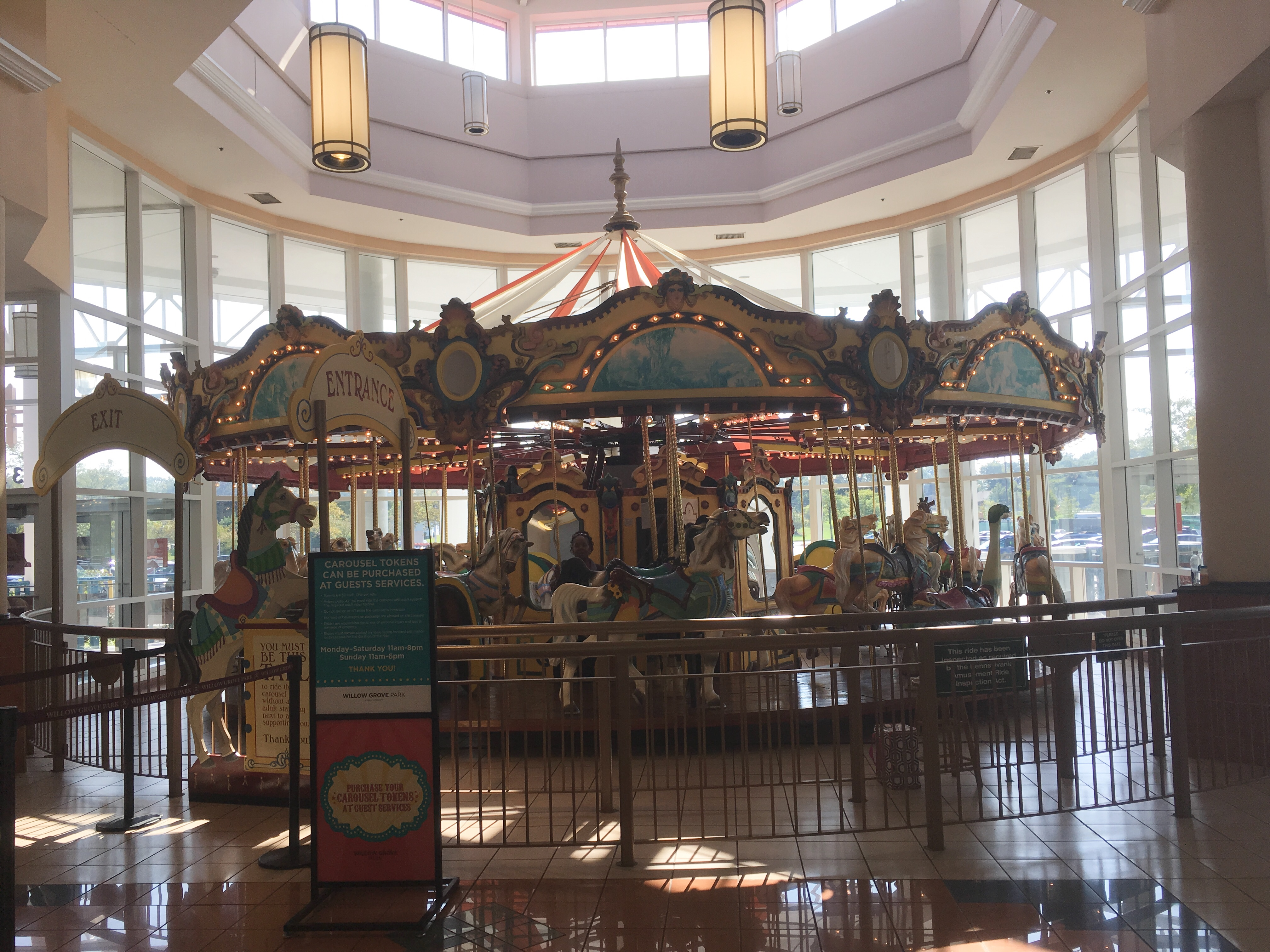 The carousel on the third floor of the Willow Grove Park Mall in Willow Grove, Pennsylvania